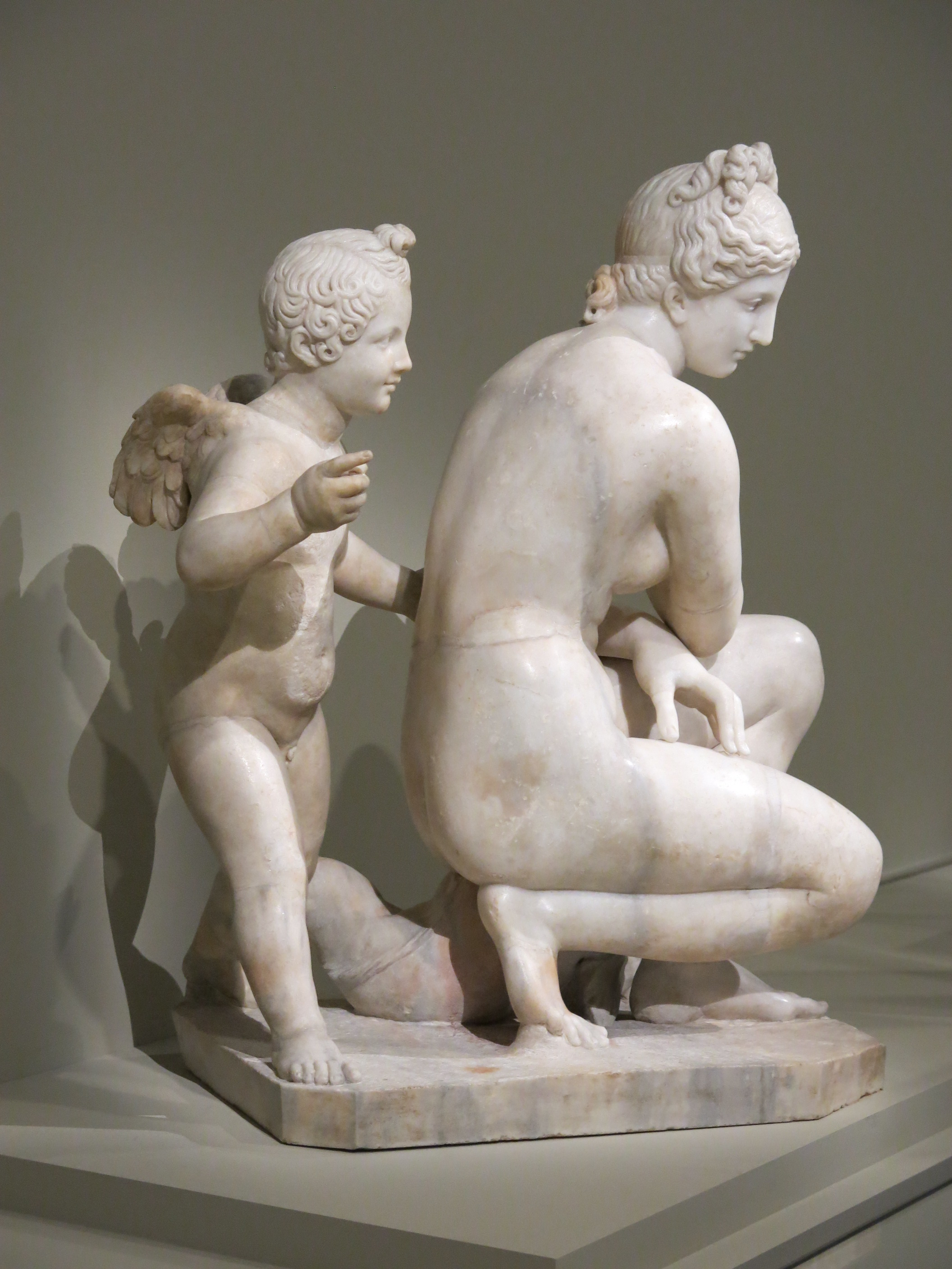 Aphrodite & Eros. Roman copy (150-175 AC) inspired by a greek original (200-150 BC). Hermitage museum (Saint-Petersburg, Russia).